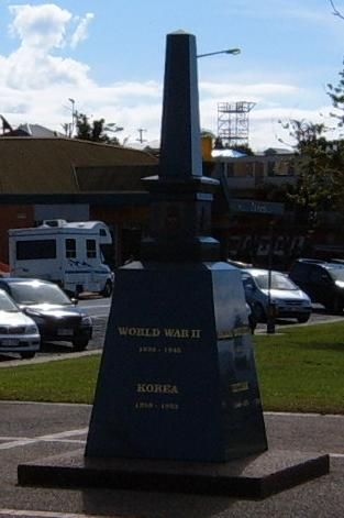 War memorial opposite Returned Services Club, Innisfail, Queensland, Australia Australia's service in wars since World War 1 are commemorated on its sides. I took this picture in June 2006. Peter Ellis 03:36, 19 August 2006 (UTC)